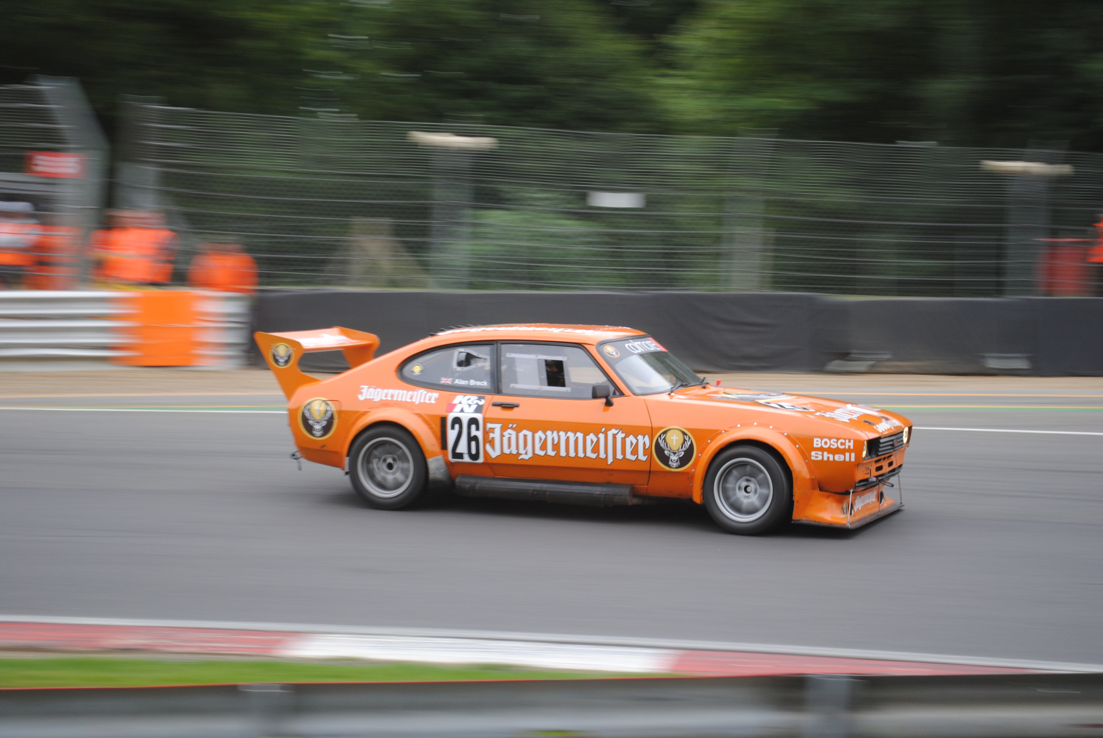 One vintage car at Brands Hatch in the CMMC Saloon car race was a Ford Capri in orange with Jägermeister stickers all over it. This scheme has proudly been worn by Porsches, BMWs and many other cars throughout motorsport.